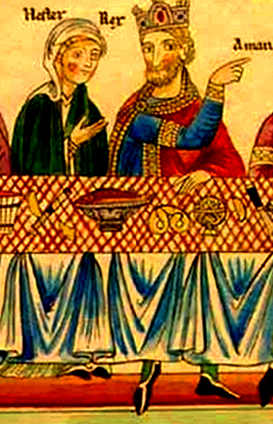 Esther and Ahashuerus at a banquet. Thought to be the earliest depiction of a pretzel.